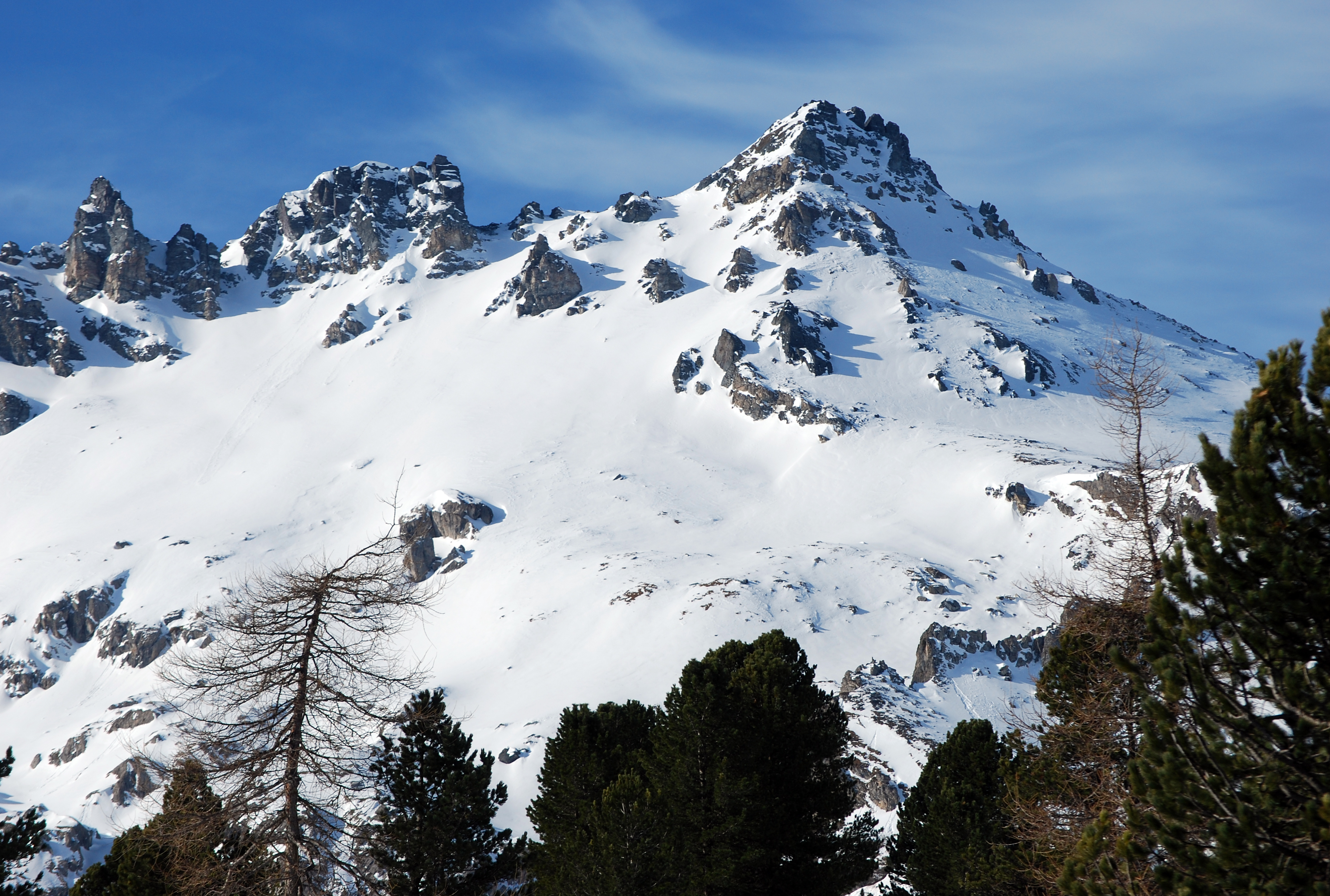 Tarntaler Köpfe from NE